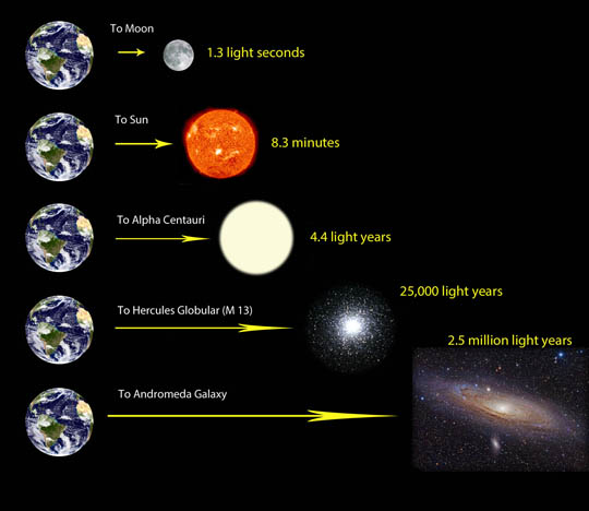 The light-year is not only a more practical way to describe distances, it also gives a clue as to how long light has traveled to reach our eyes. This scale starts close to home but takes us all the way out to the Andromeda Galaxy, the most distant object most people can see with the unaided eye.